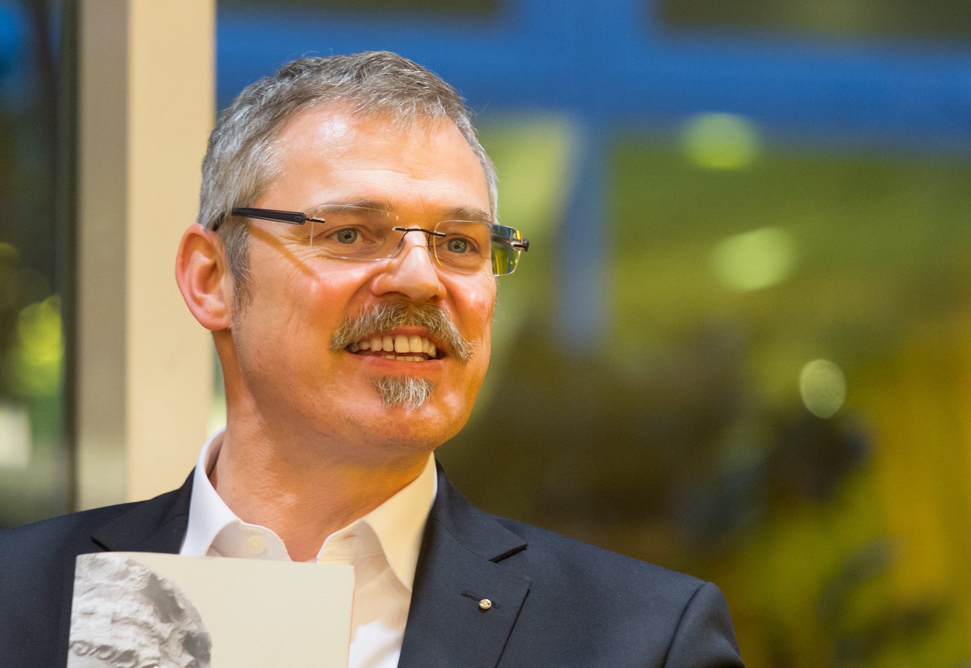 Ulrich S. Soénius, Cologne Chamber of Commerce and Industry, Economic Archive of Rhineland and Westfalia.